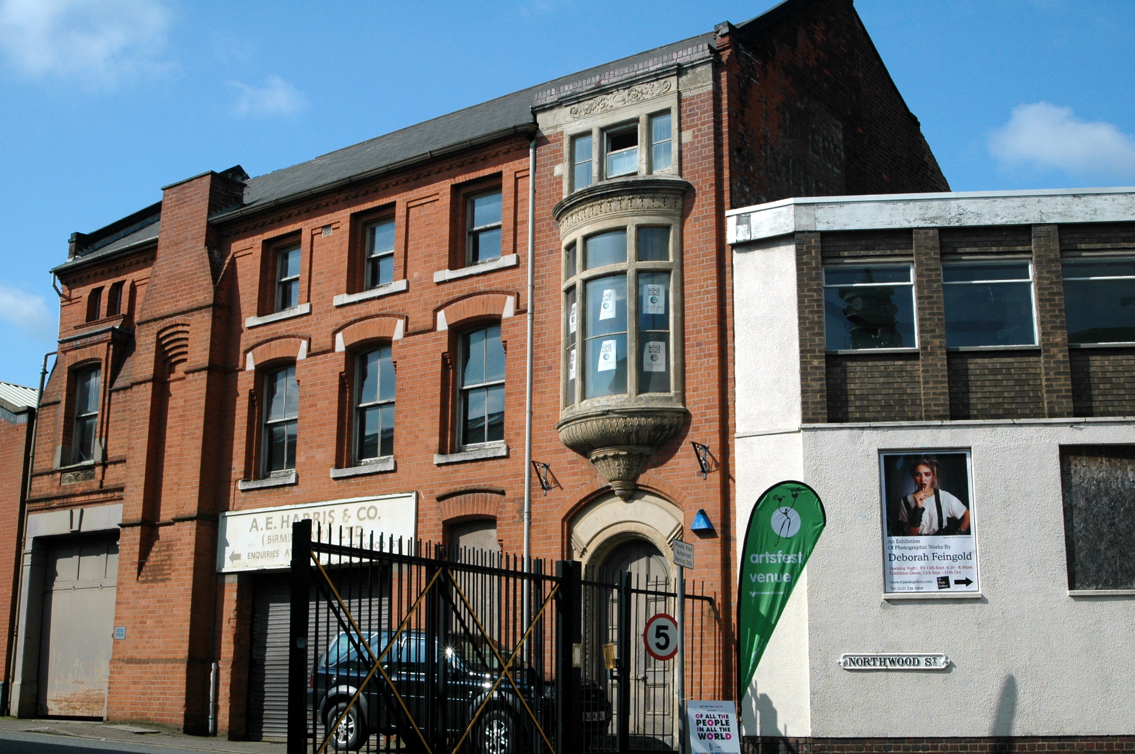 This is the only building retained and incorporated into the massive A.E. Harris scheme in the Jewellery Quarter of Birmingham. The vast majority of the buildings behind it will be demolished to make way for new buildings incorporating retail, offices and apartments.